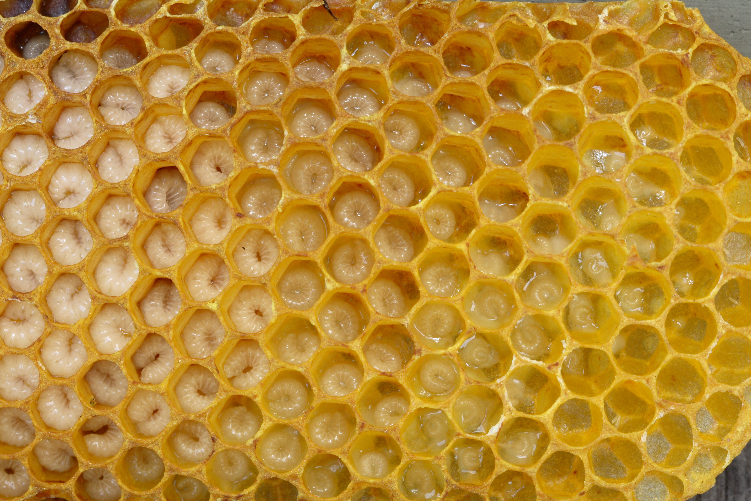 Brood of drones of the Western honey bee.